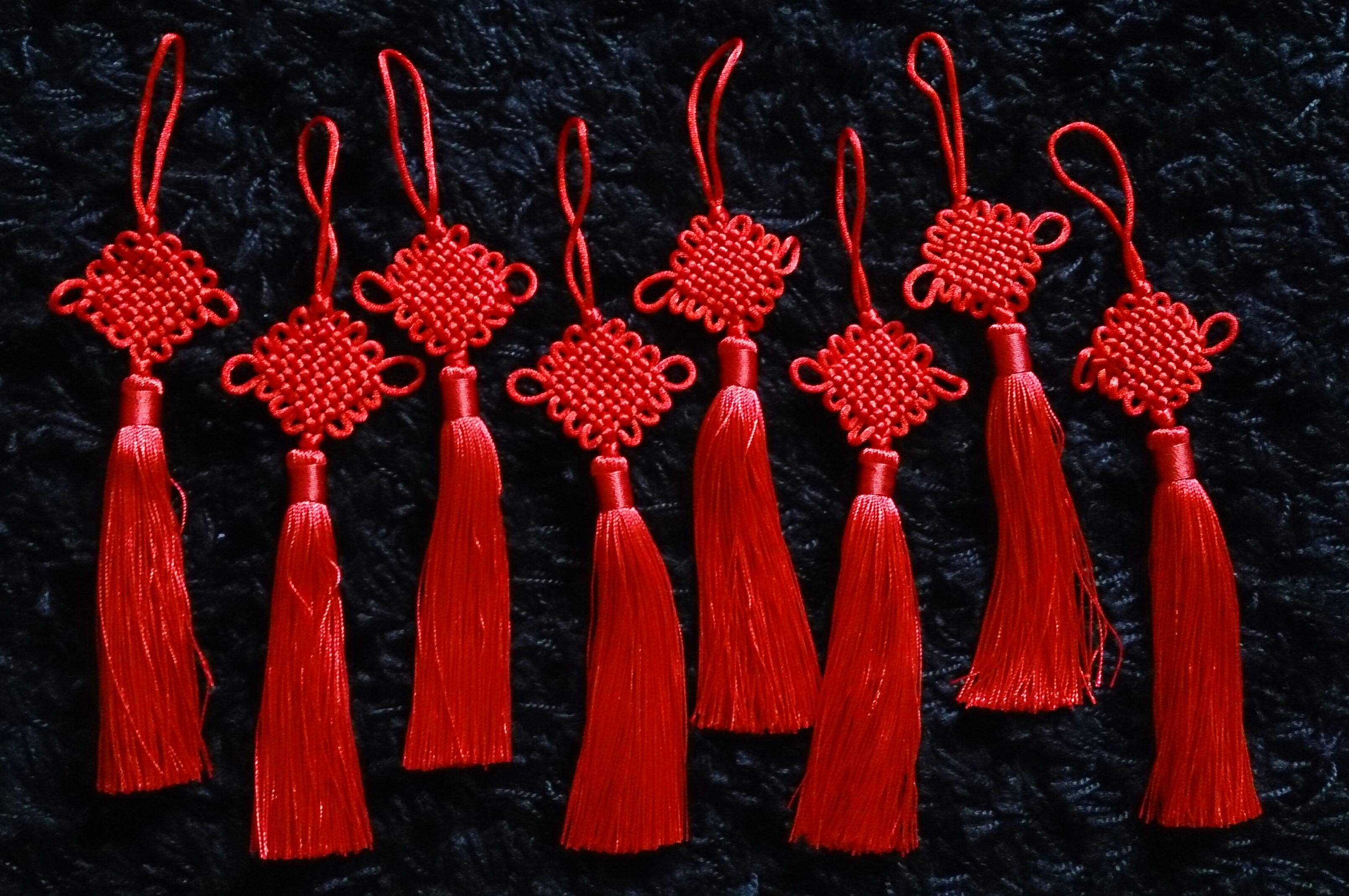 for good luck and fortune